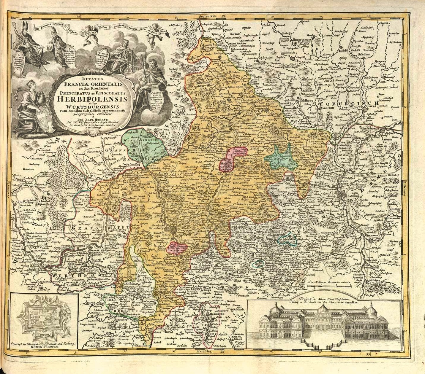 Early 18th century map of the Prince-Bishopric of Würzburg (Latin: Principatus et Episcopatus Herbipolensis) by Johann Baptist Homann. The prince-bishops of Würzburg also bore the title of duke of the Duchy of Franconia (Latin: Ducatus franciae orientalis), which was largely honorific. The red-colored area at the center of the map shows the territory of the Free Imperial City of Sweinfurst. The other area in red is the County of Limpurg–Speckfeld.